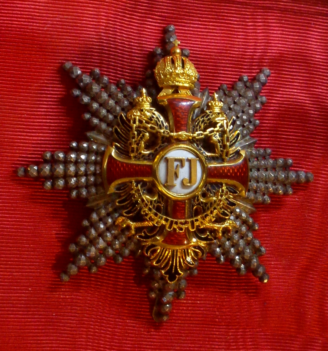 Imperial Order of Franz Joseph, star of Grand Cross, 1849-1866. Austria. The exhibition of the Tallinn Museum of Orders of Knighthood, Estonia.